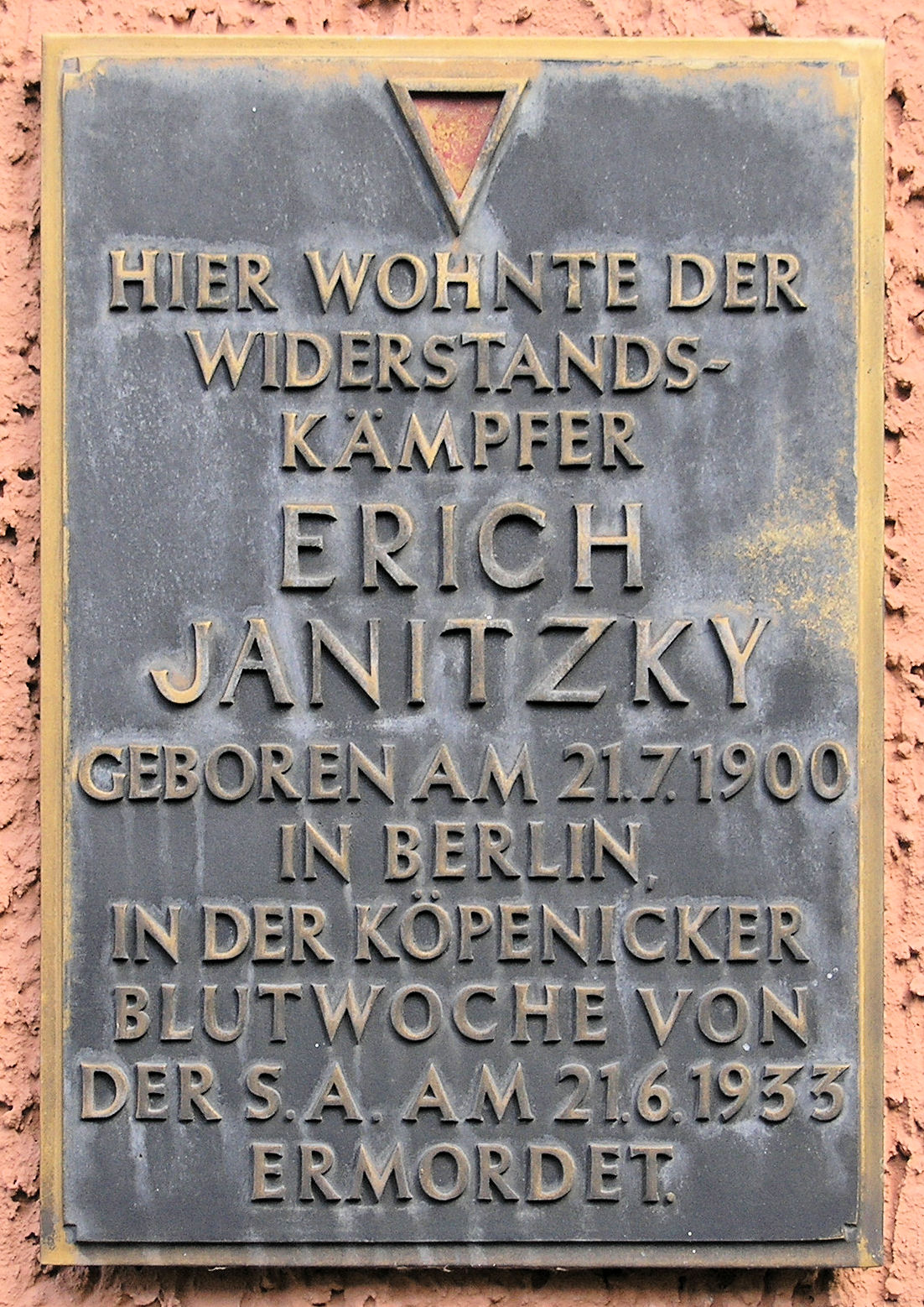 Memorial plaque, Erich Janitzky, Mittelheide 3, Berlin-Köpenick, Germany Koordinate:52°27′47″N 13°35′4″E / 52.46306°N 13.58444°E